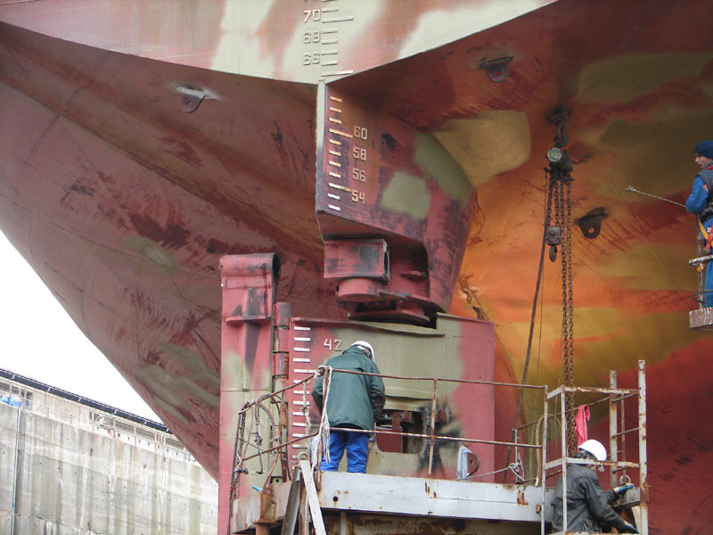 The rudder of the Chassiron being unmounter, in dry dock.